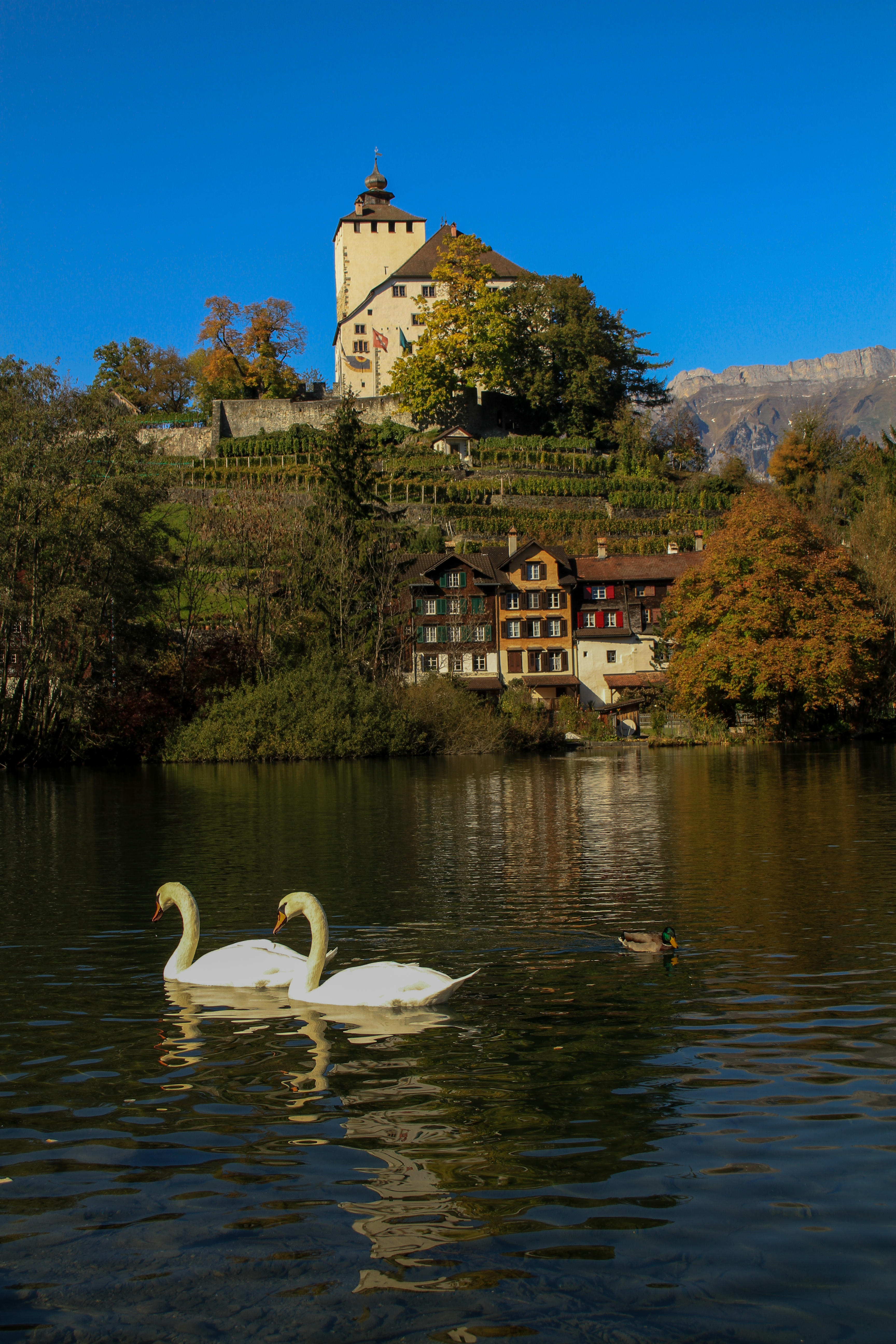 Werdenberg Castle